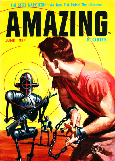 Cover of Amazing Stories, June 1957